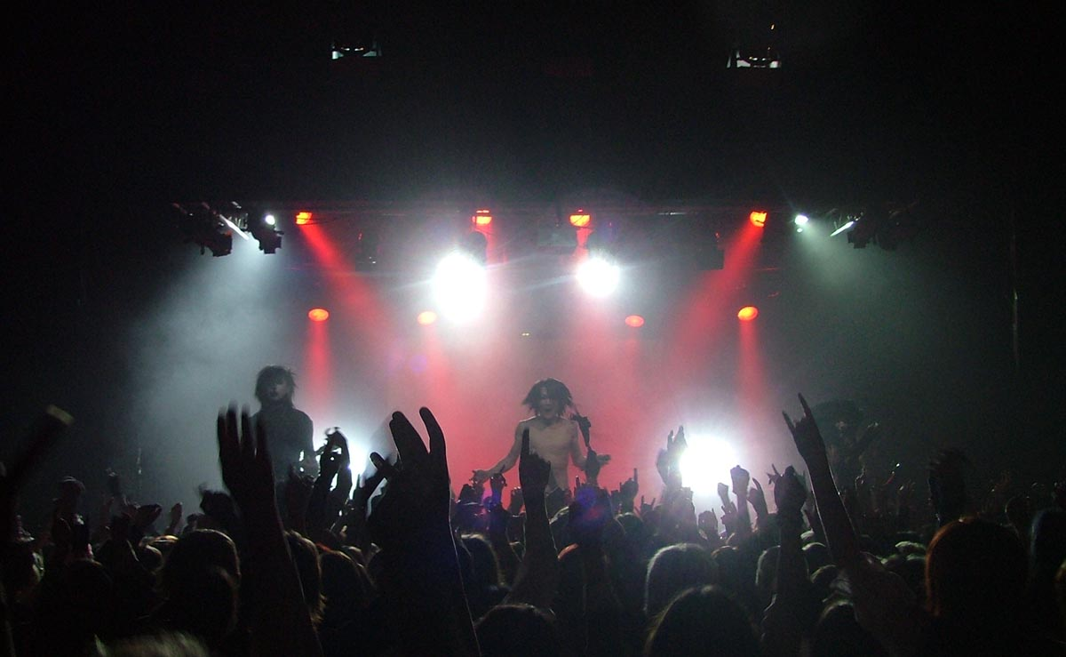 Tapahtumakuva